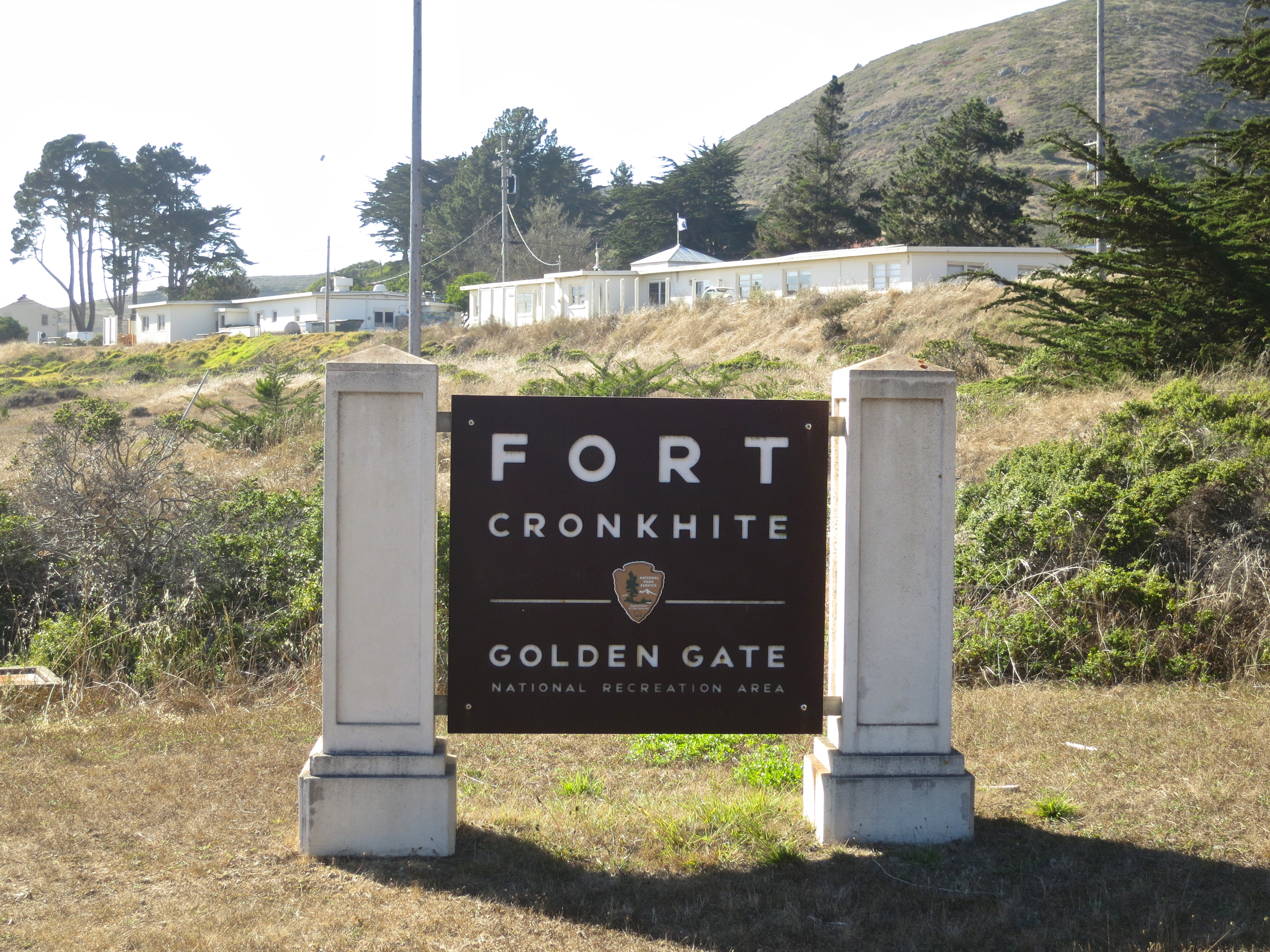 Forts Baker, Barry, and Cronkhite